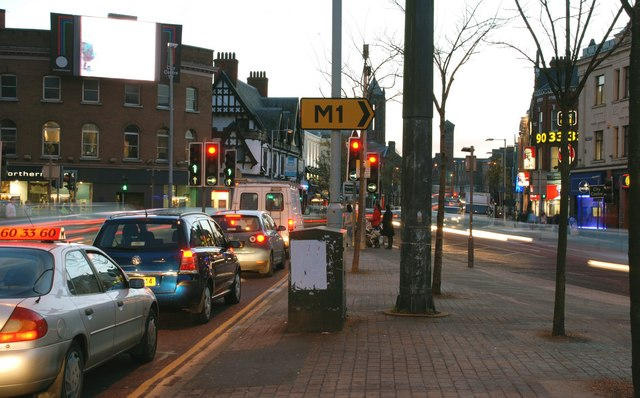 Shaftesbury Square, Belfast. Six streets meet in Shaftesbury Square. Traffic used to be controlled by a policeman and later a traffic warden. Now it's computer-operated lights. Bradbury Place 544813 is straight ahead.